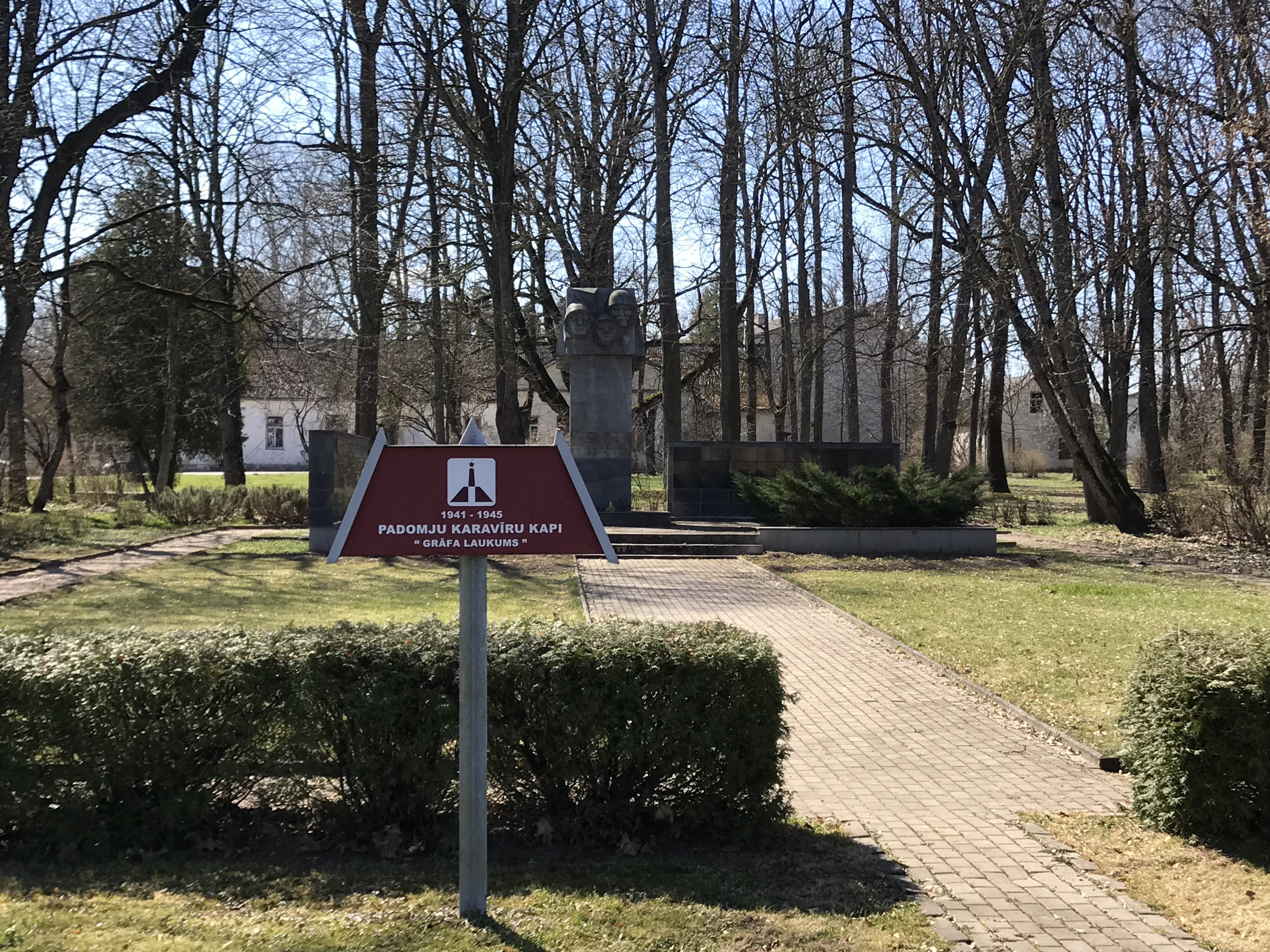 Latvia, Iecava